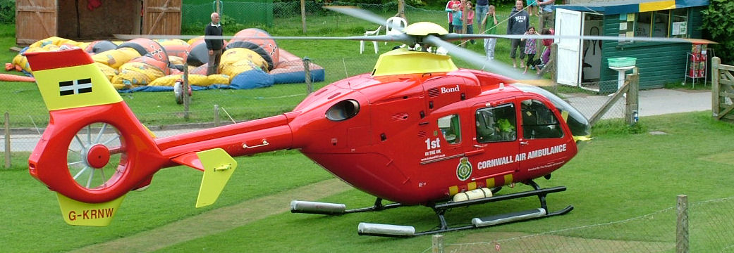 Cornwall air ambulance G-KRNW Eurocopter EC 135, to illustrate tail rotor article